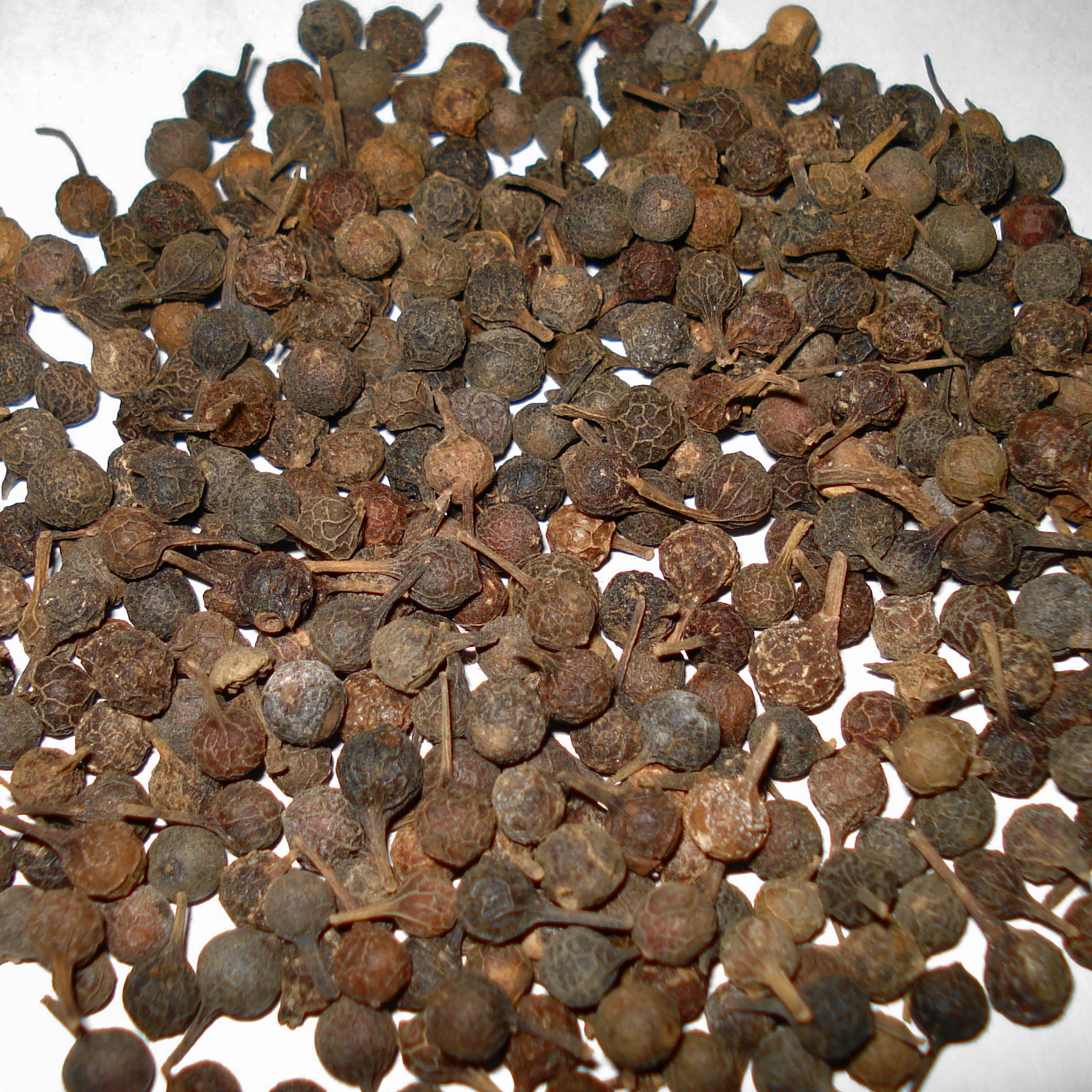 Cubeb or Kubeb also known as kabab chinni in urdu